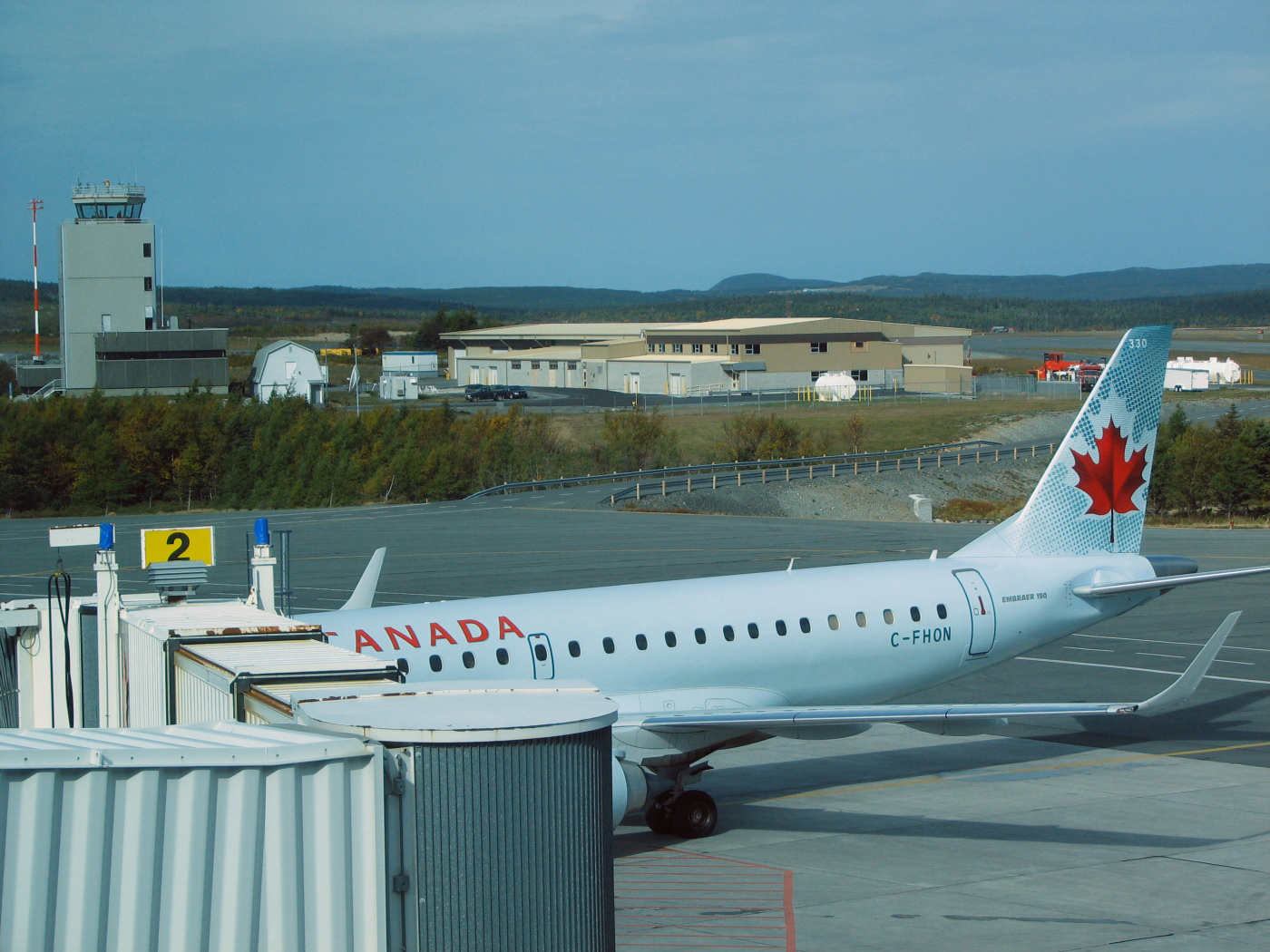 View of gate 2 and the control tower from the observation deck.